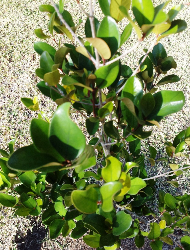 Coffea mauritiana - Cafe Marron - Mauritius